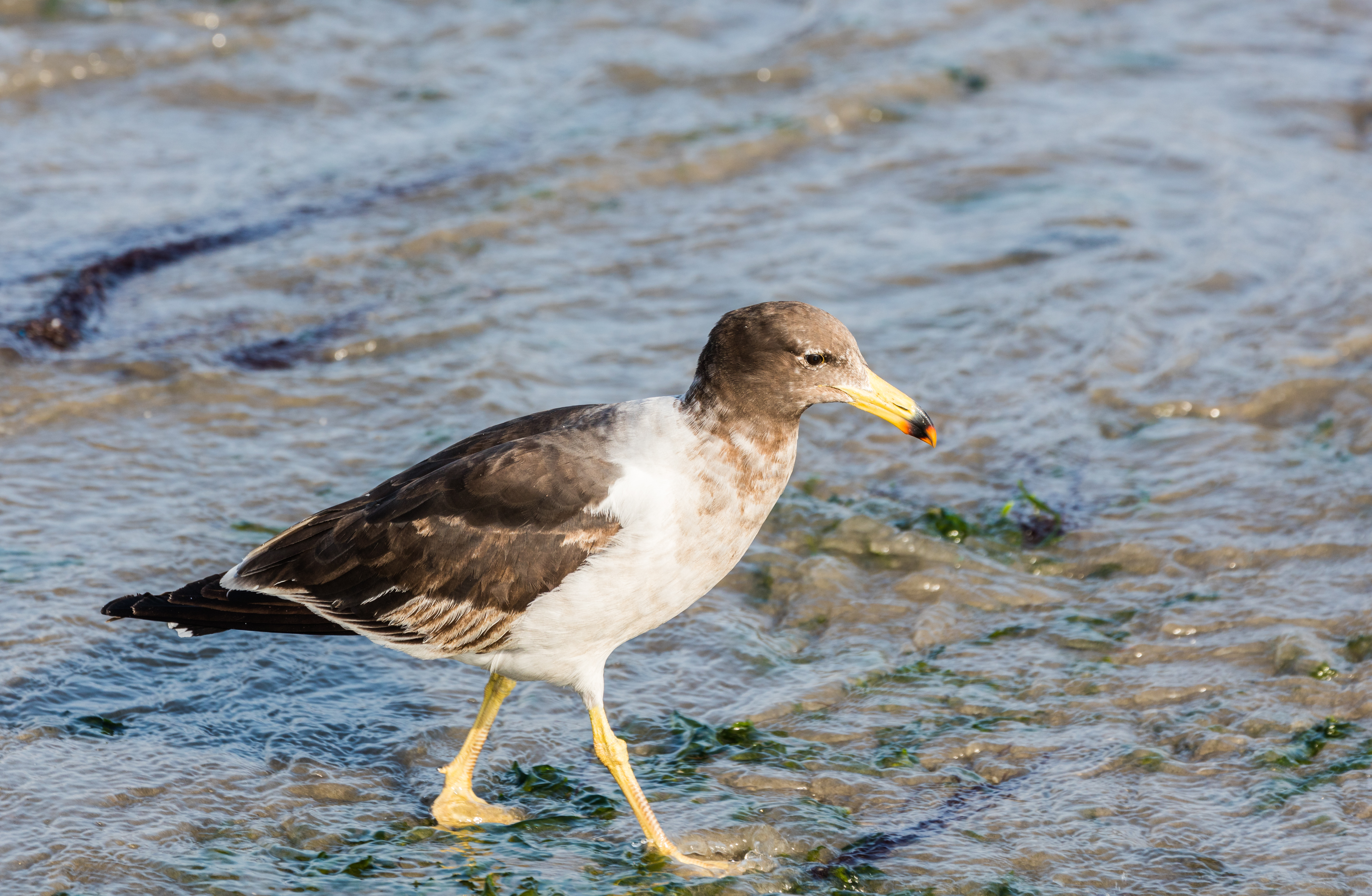 Peruvian seagull (Larus belcheri), Port of Paracas, Peru